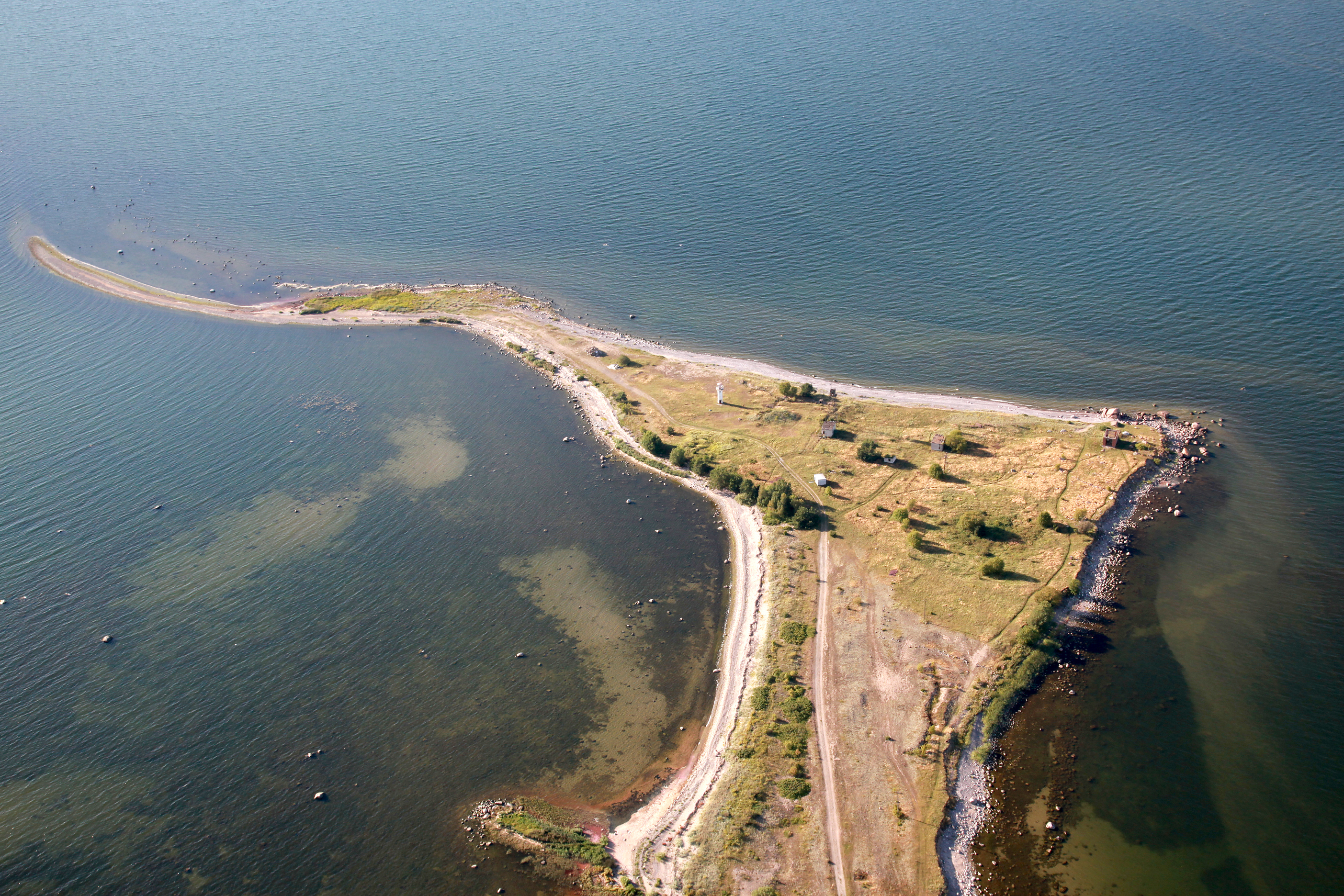 Uppermost point of Ihasalu peninsula.